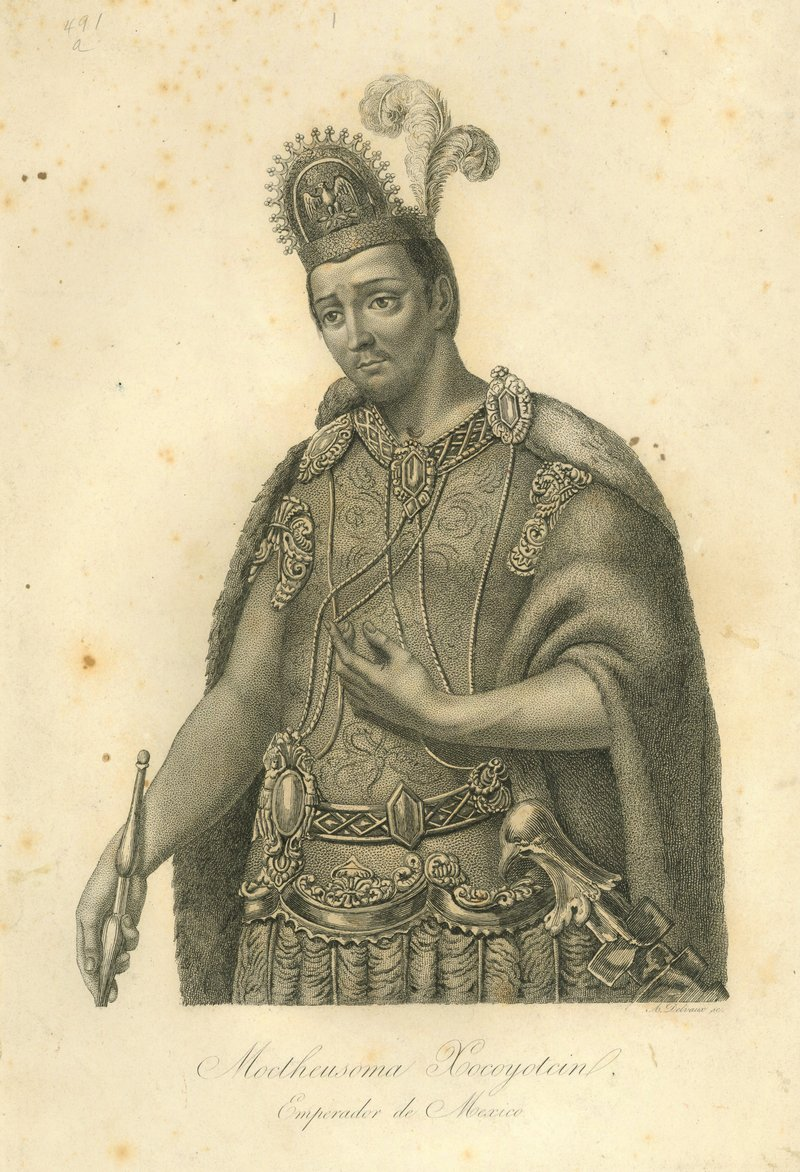 "Portrait of Moctezuma Xocoyotzin", steel engraving, pre-1879 from "Documents to support the claim of José María Lizaula to a pension granted to the heirs of the Emperor Moctezuma" 1531-1885